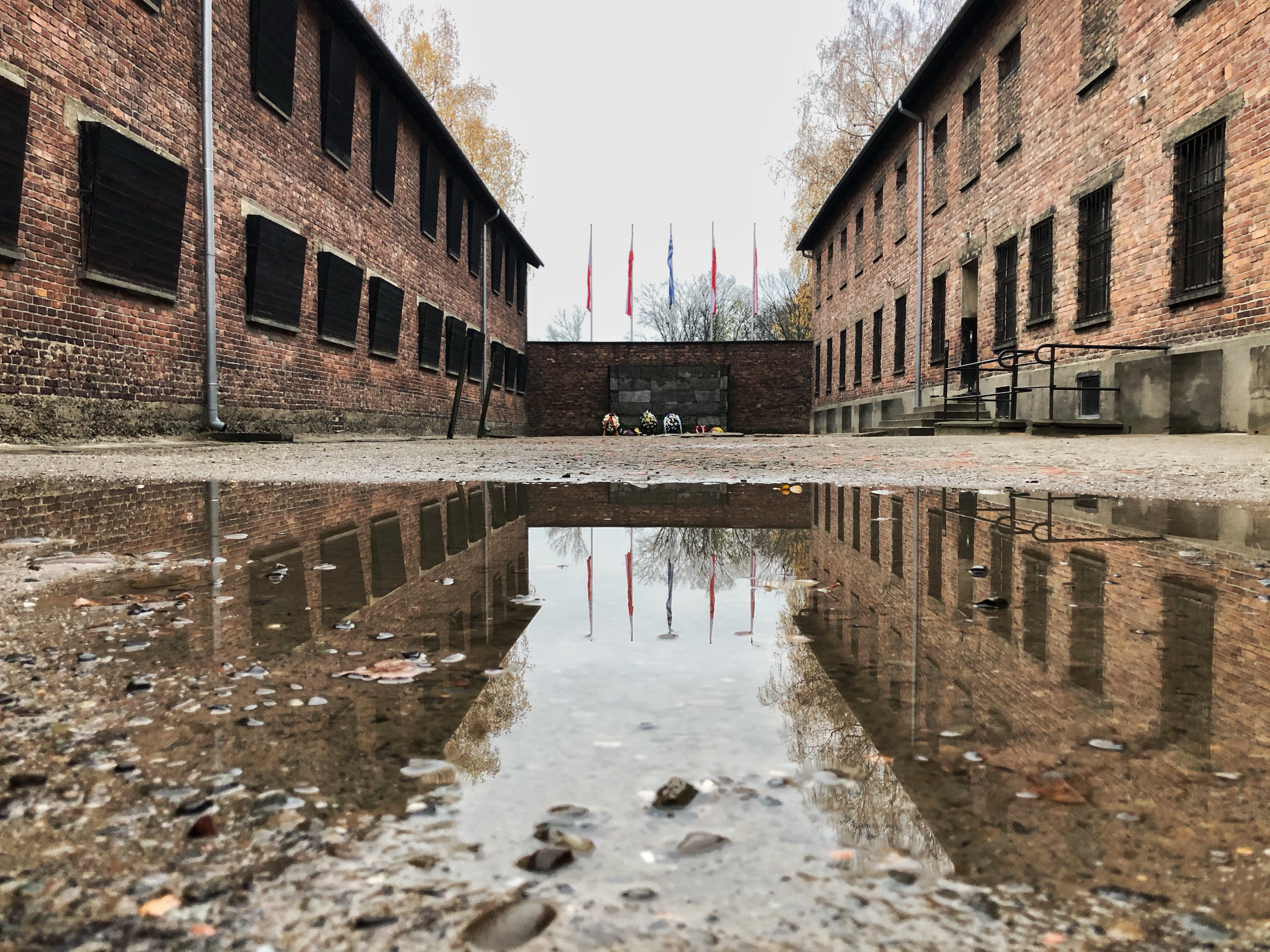 The Death Wall is a structure erected near the courtyard wall between block 10 and block 11 in the German Nazi Auschwitz I camp, where for two years, from the autumn of 1941 to the autumn of 1943, SS men conducted a few thousand executions. Prisoners were killed by SS men with a shot to the base of the skull from a small‑bore weapon. After the execution, the corpses were taken to the crematorium. From the autumn of 1943, executions by shooting were conducted in the Auschwitz II-Birkenau camp. The wall was dismantled. In 1946, it was reconstructed by former prisoners of the camp employed by the Memorial, which was then being created.